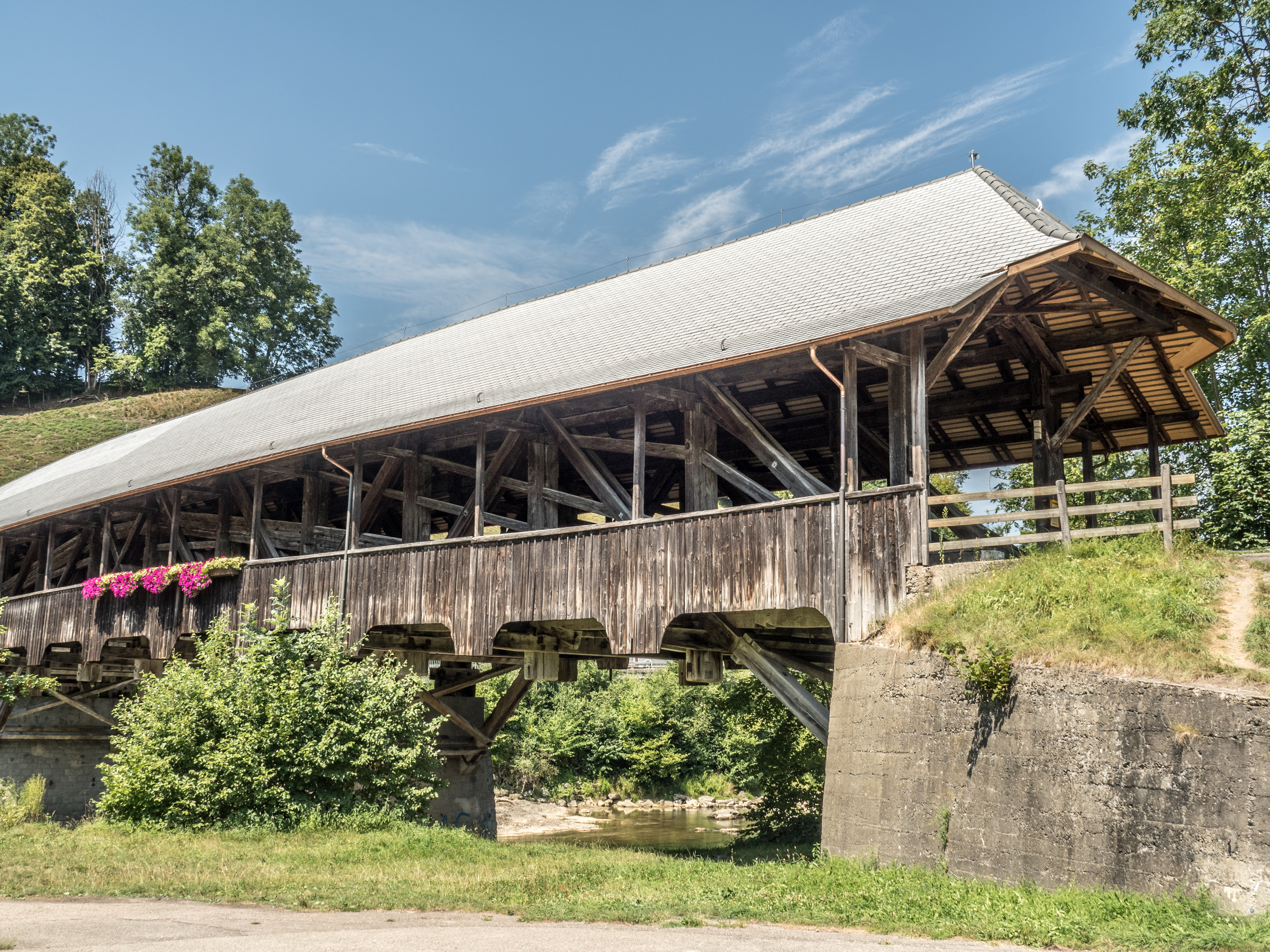 Covered Wooden Bridge over the Thur River, Lütisburg, Canton of St. Gallen, Switzerland